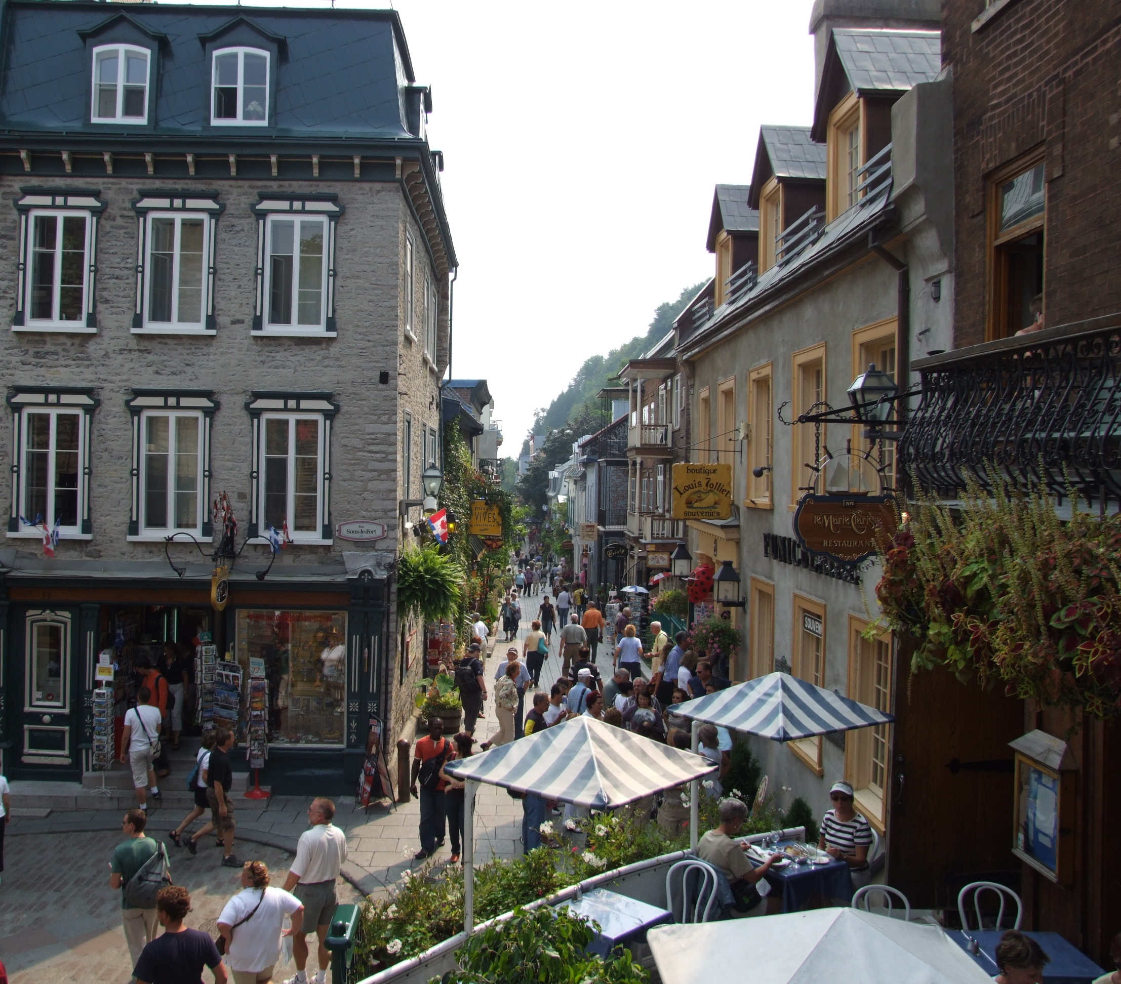 Quebec city, CANADA